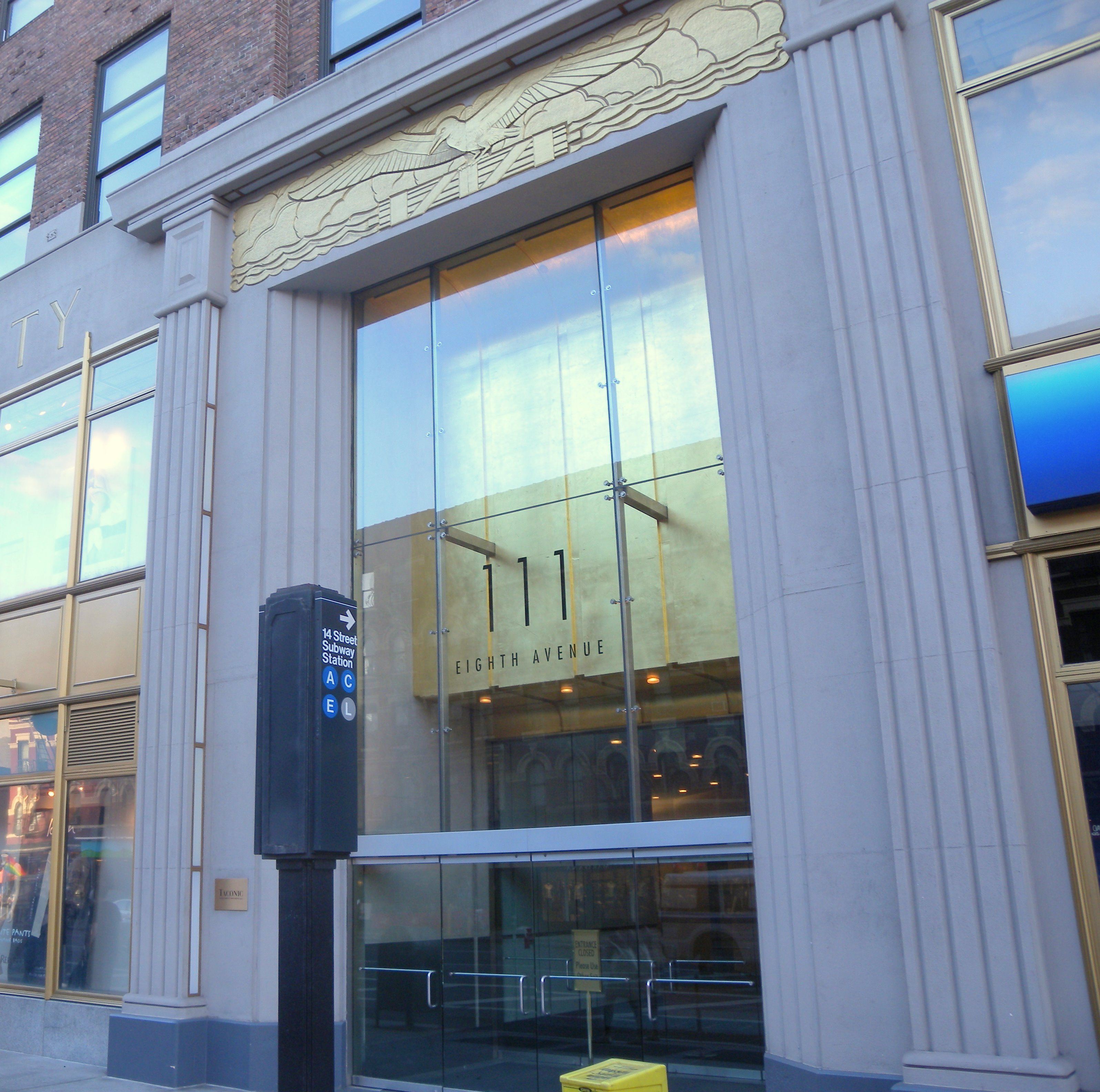 Looking west at 14th St 8th Ave IND entrance on a sunny afternoon.